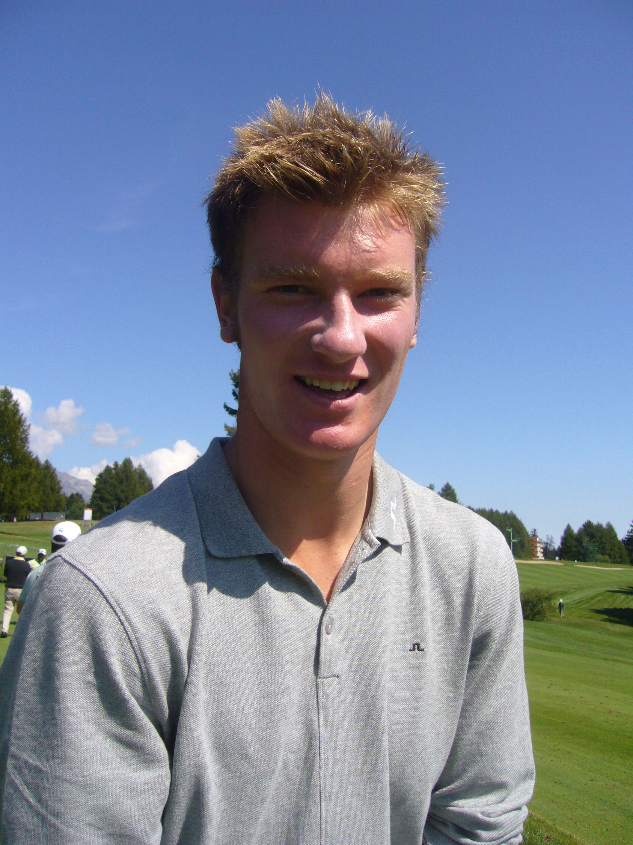 Chris Wood, English golfprofessional